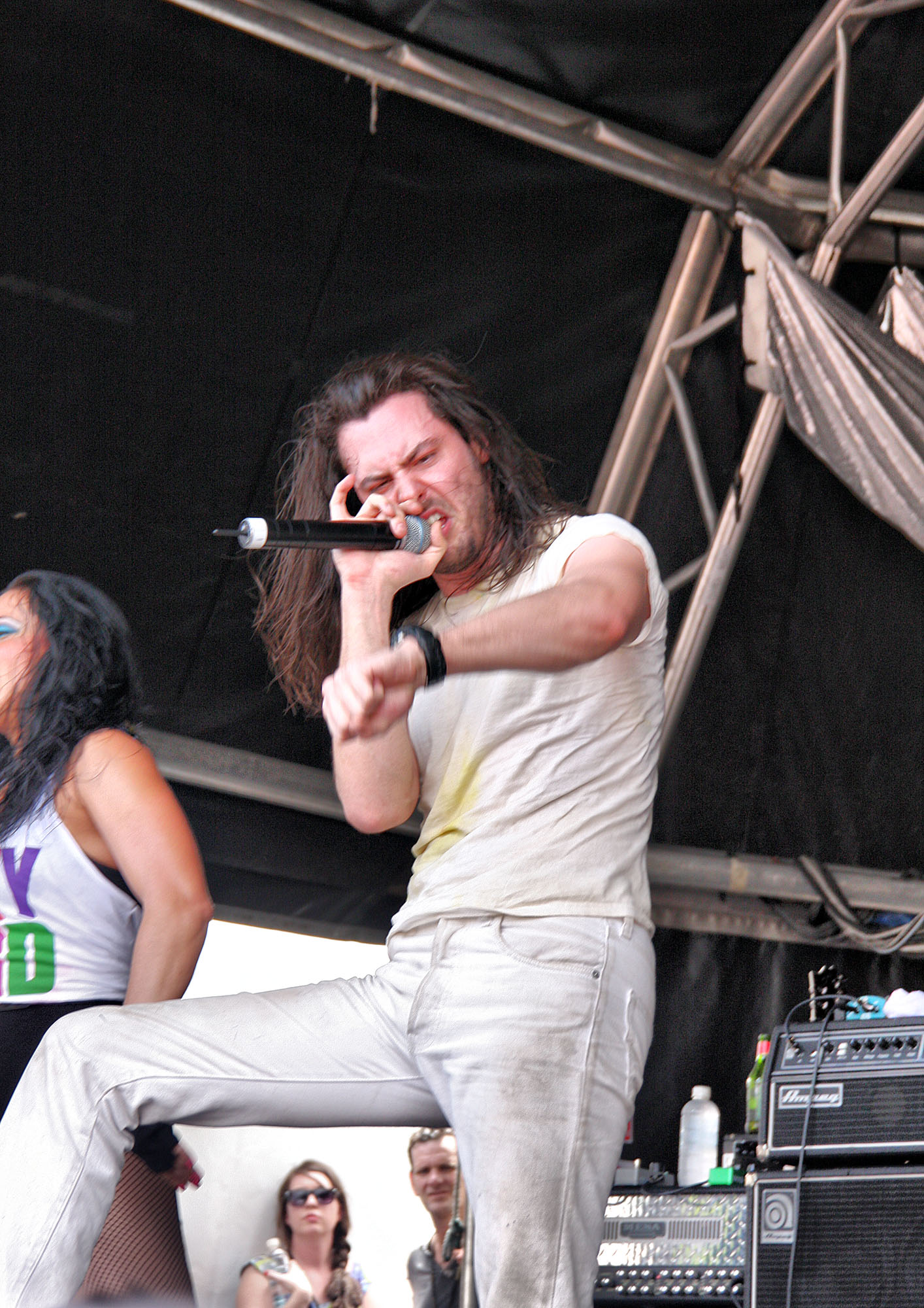 Andrew W.K. performing at Big Day Out 2011, Sydney